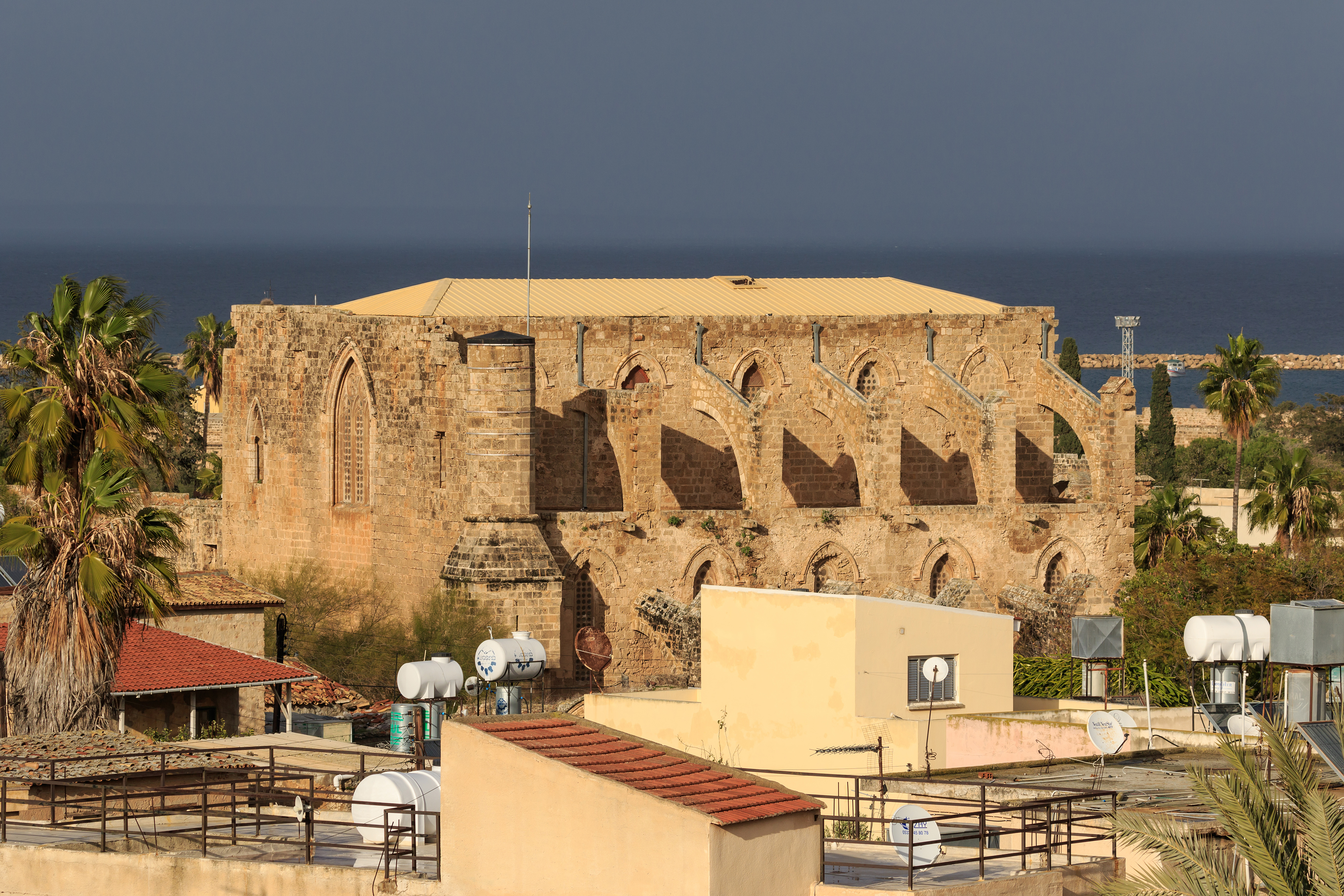 St. Peter and Paul Church, view from the ravelin of the city wall in Famagusta, Cyprus